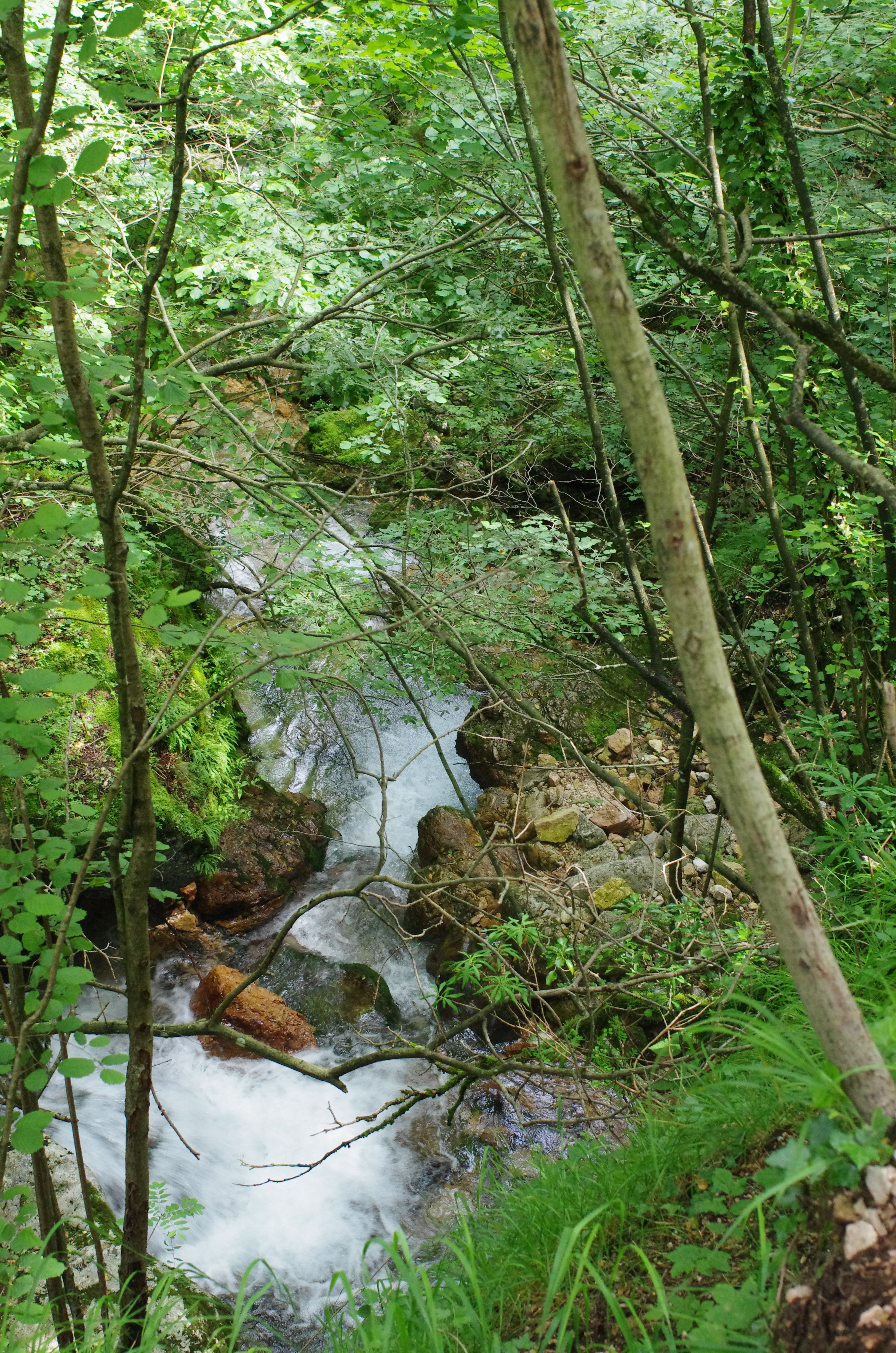 2014/07 Selva di Progno (VR) Italy - Giazza - Val Fraselle - ravin forest - Ctg Baldo Lessinia org photo Paolo Villa FOTO6786